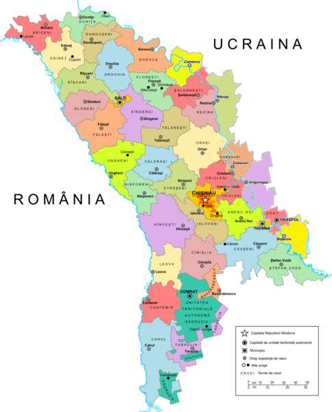 Moldova's counties de jure